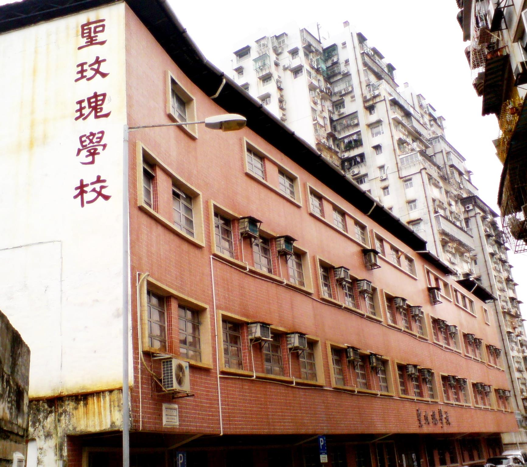 Escola do Santíssimo (S.S.) Rosário